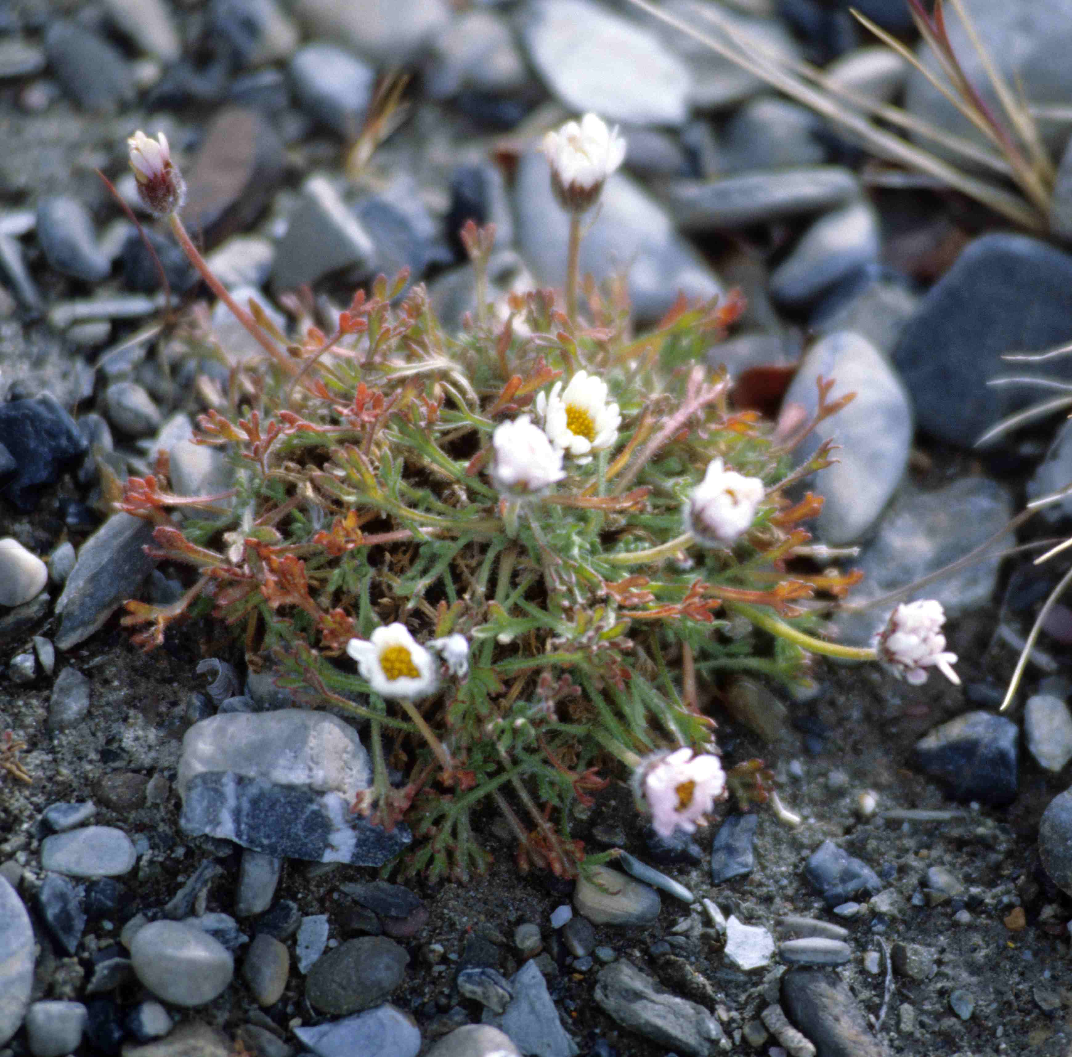 Arctic daisy (Chrysanthemum integrifolium) in Quttinirpaaq National Park, Nunavut, Canada